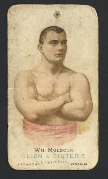 From image page: "Cigarette advertising card produces by Allen and Ginters. Depicted is William Muldoon, wrestler. Muldoon learned how to wrestle in the Civil War camps of the North. Known for his strength and endurance, he was a world champion in Greco-Roman wrestling."